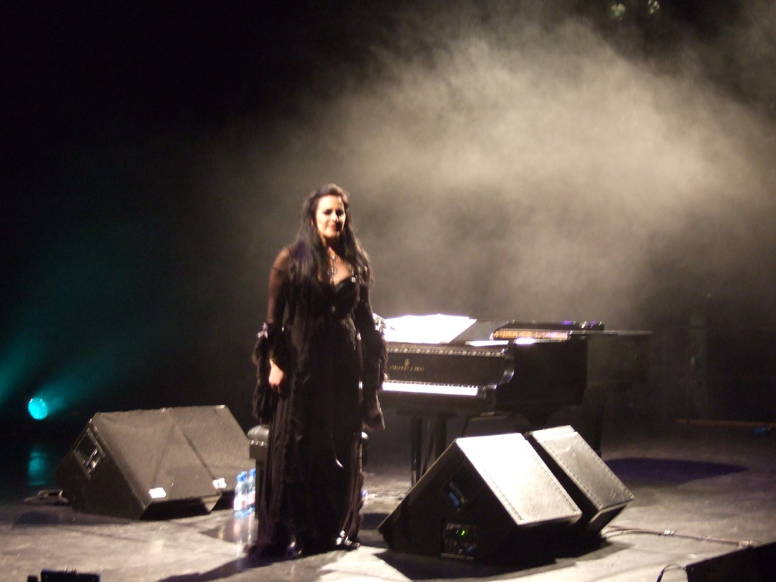 Diamanda Galás at the QE Hall in London